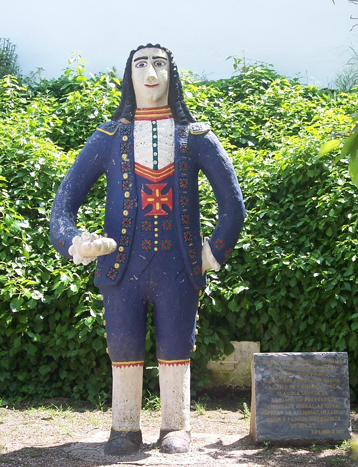 Statue of the 15th century Portuguese pharmacist and chess player Damiano de Odemira made in 2002 by the artist Liberdade Sobral